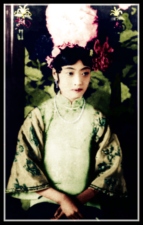 Photograph of the Qing Dynasty Empress Gobele Wan-Rong of XuanTong. Colored Version.